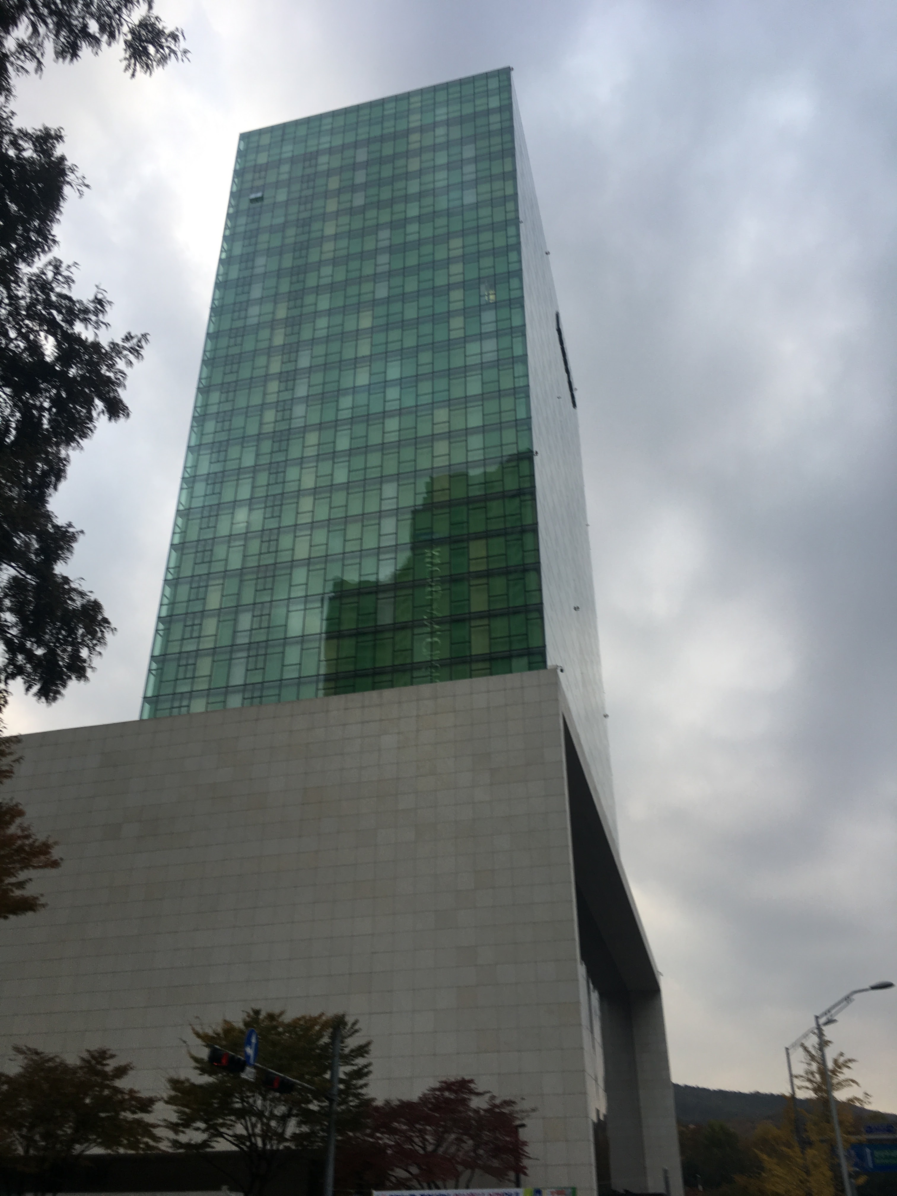 Naver Headquarter